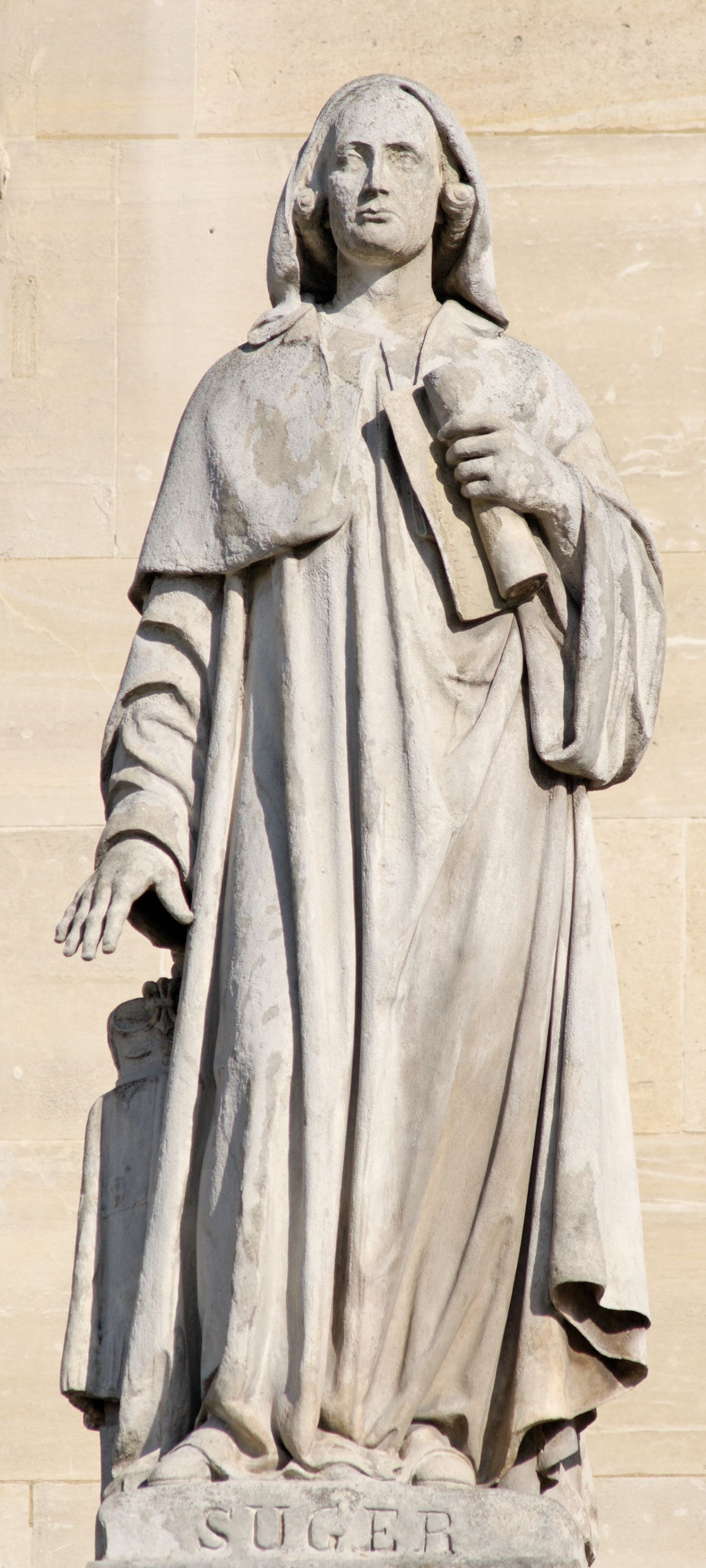 Suger by Nicolas Bernard Raggi. Stone, before 1853. 5th statue from Pavillon Richelieu to Pavillon Colbert, Cour Napoléon in the Louvre.